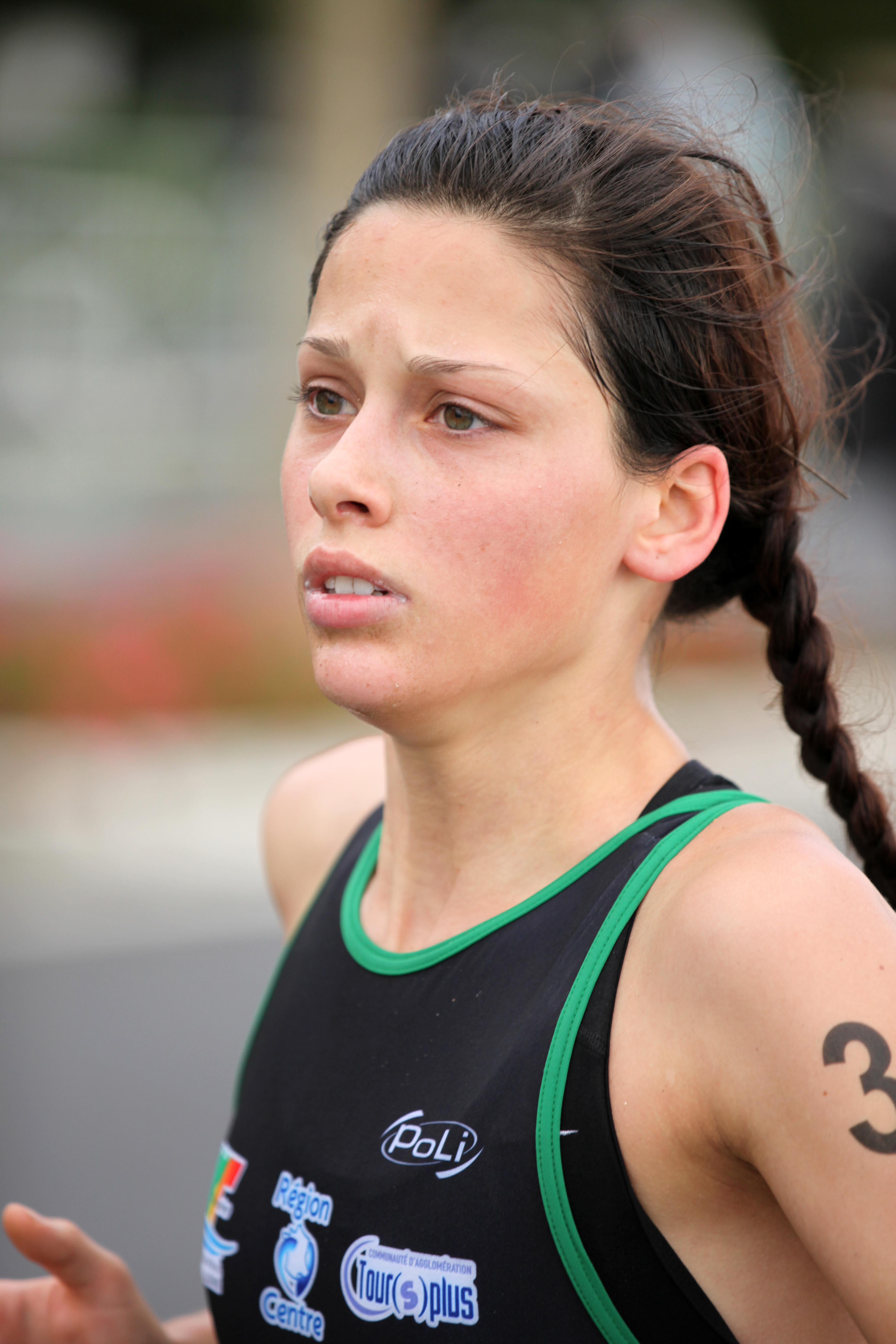 Hannah Drewett at the French Grand Prix de Triathlon event (Grand Final) in La Baule